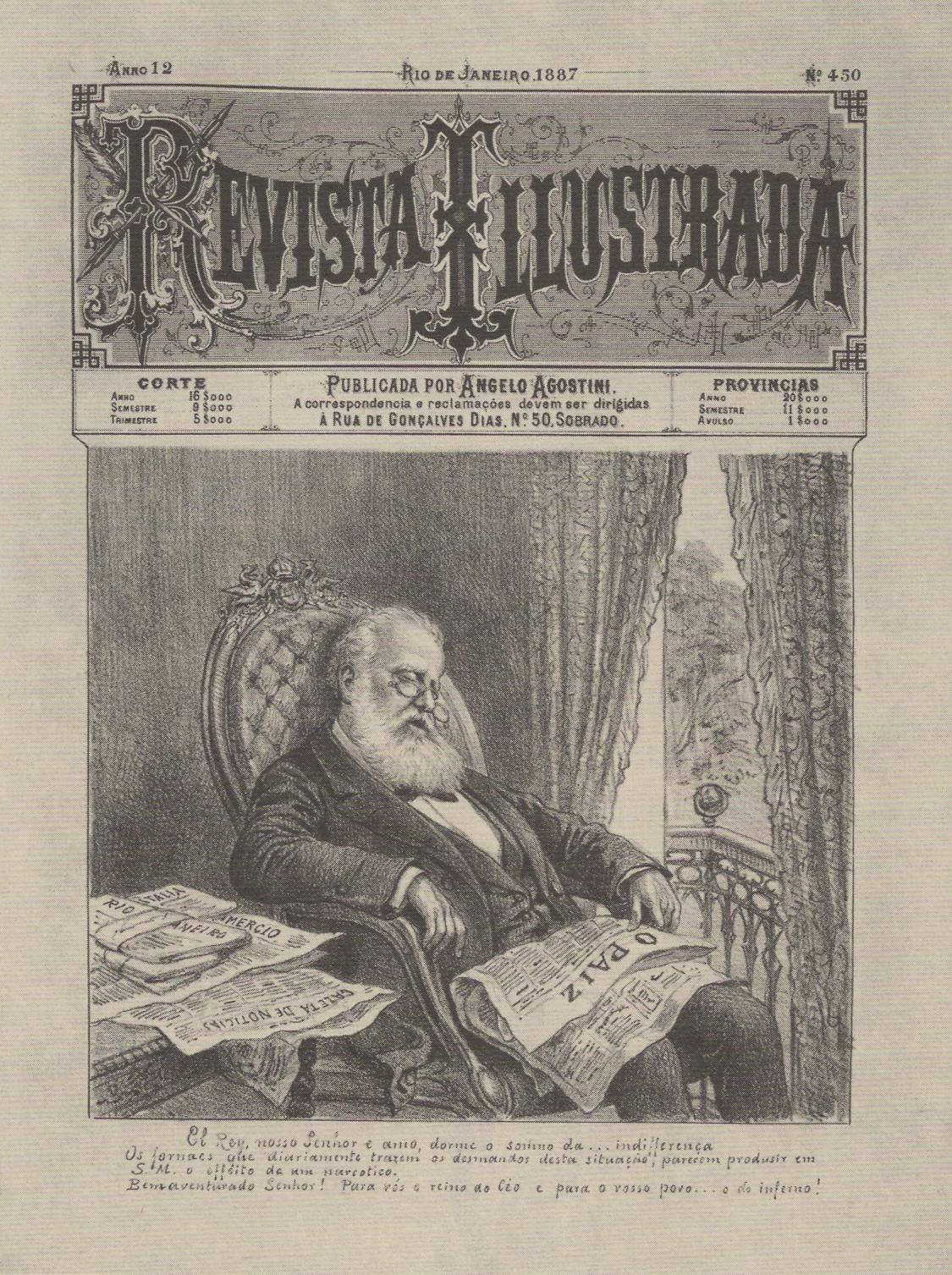 Emperor Pedro II´s caricature.